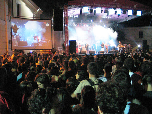 exitfest-fusion-stage